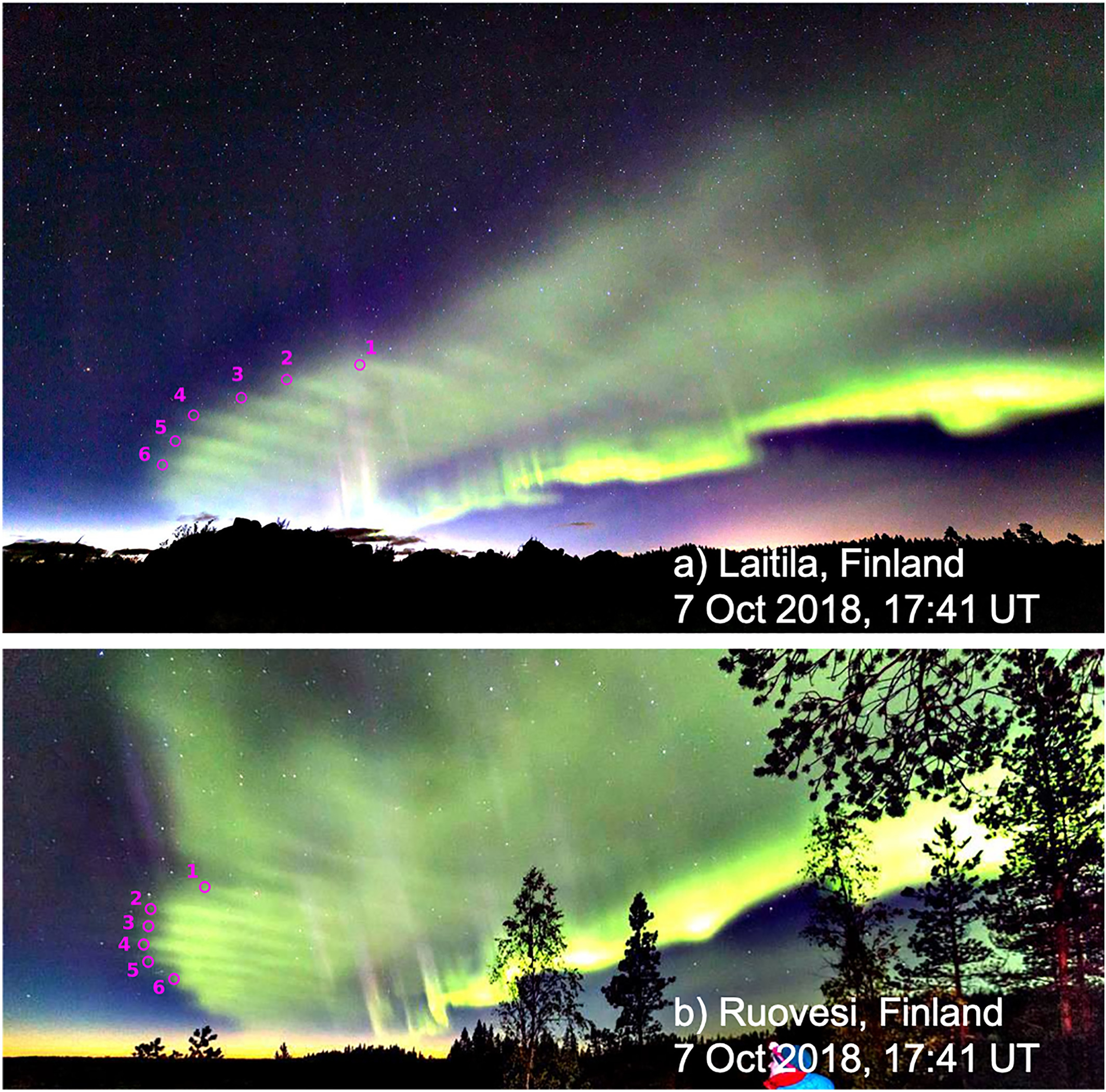 Dune type of auroral form, pictured in 2018 in Finland